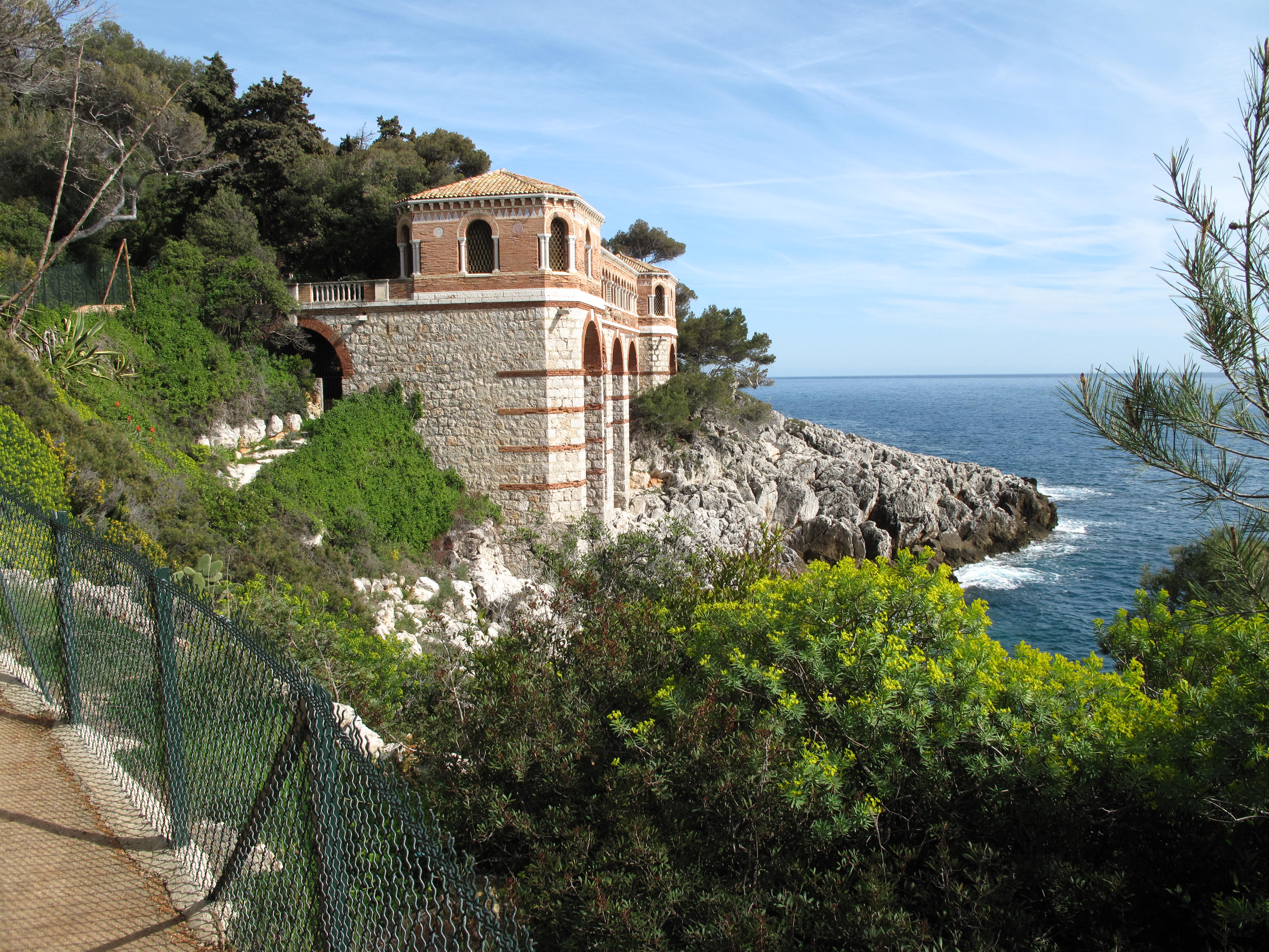 Gallery over the sea at the villa Cypris in Roquebrune Cap-Martin, France